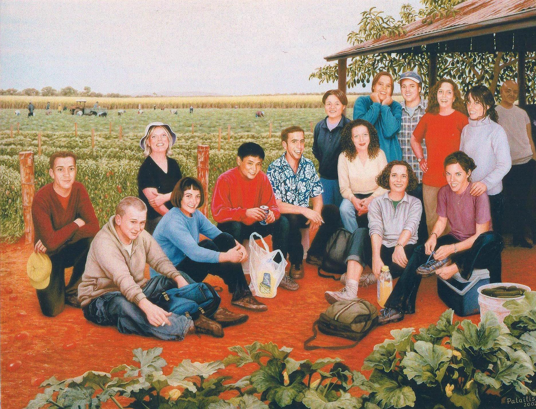 “Taking a Break in the Field” an oil painting on linen 130cm x 170cm photographer:Mary Lewis Artist:Josonia Palaitis